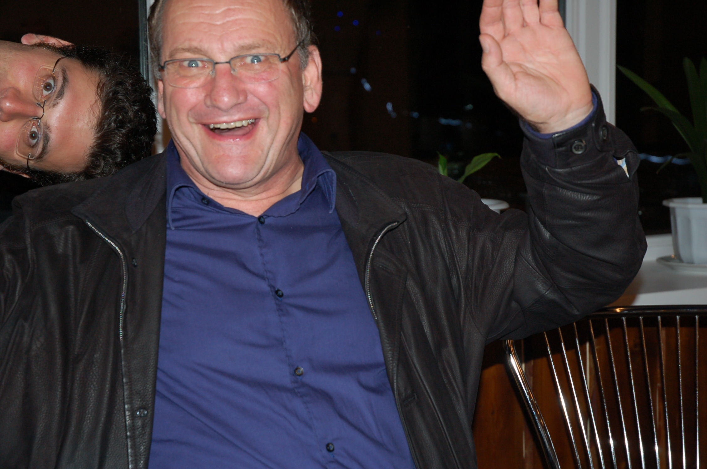 My portrait with Karl Stetter. There is a more serious version, but what good is that?